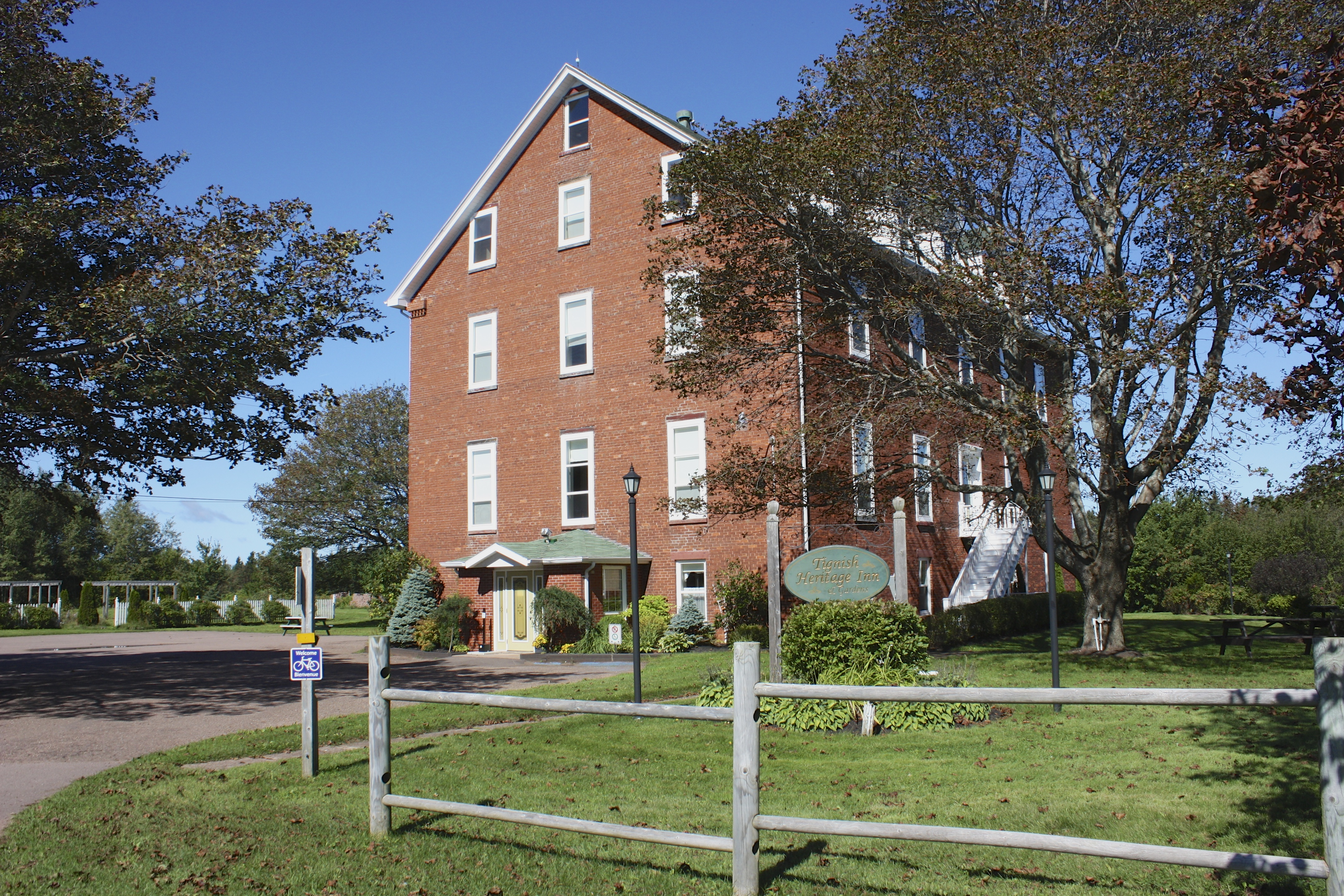 206 Maple Street, Tignish, Prince Edward Island, Canada.